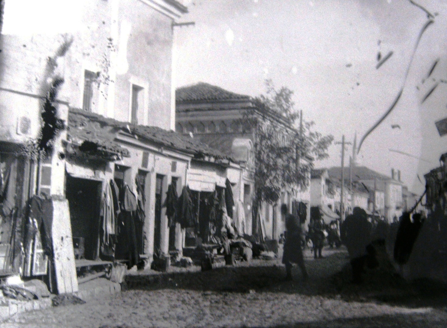 View of a street он flea market in Bitola, photographed between the two world wars. 1918-1941 (Damaged glass plate) This media file is produced by Wikipedian in Residence in Category:Wikipedian in Residence at DARM in 2016.